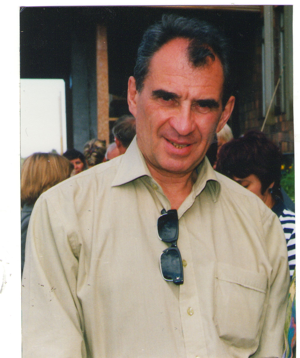 Photo of Russian music scientist Edward Abdullin